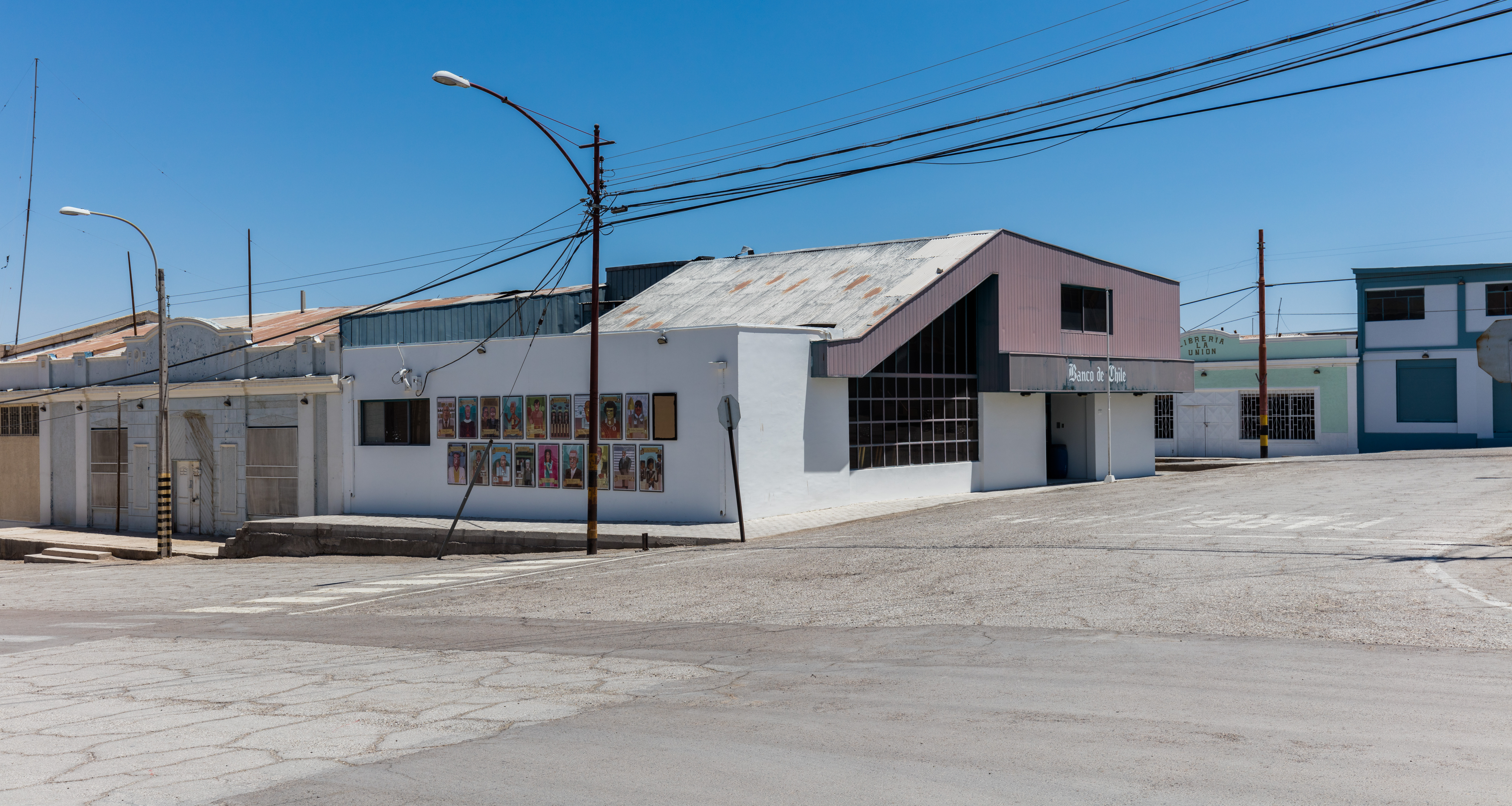 Chuquicamata town, Calama, Chile